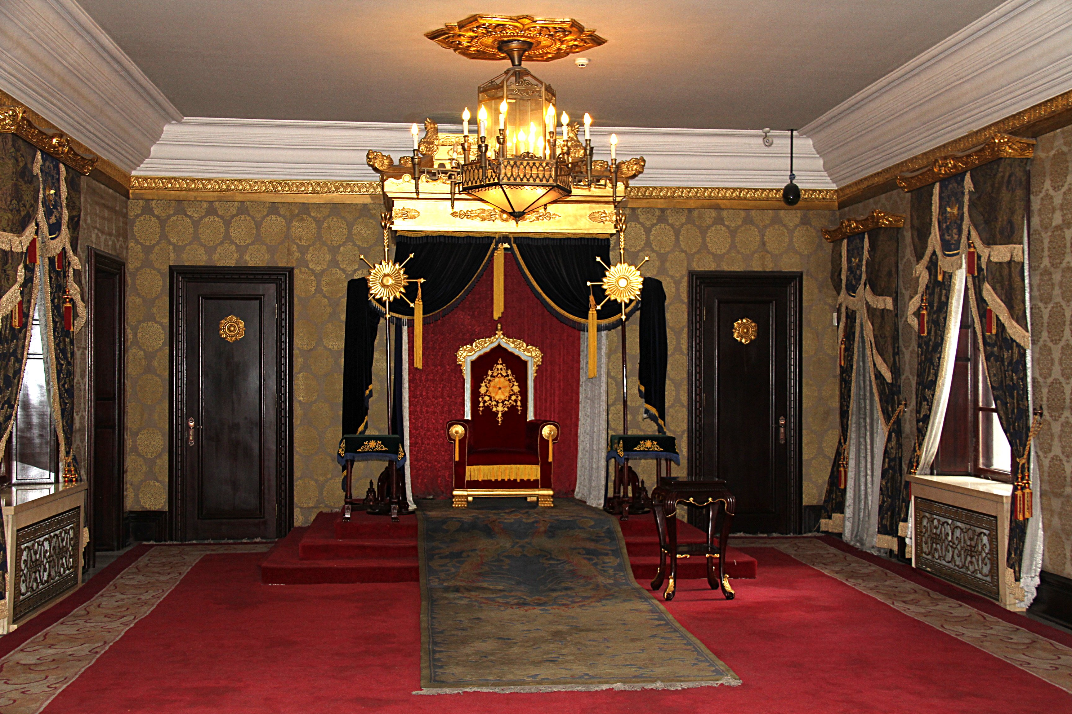 Photograph of the throne room in the Museum of the Imperial Palace of the Manchu State, Changchun, Jilin province, northeast China.